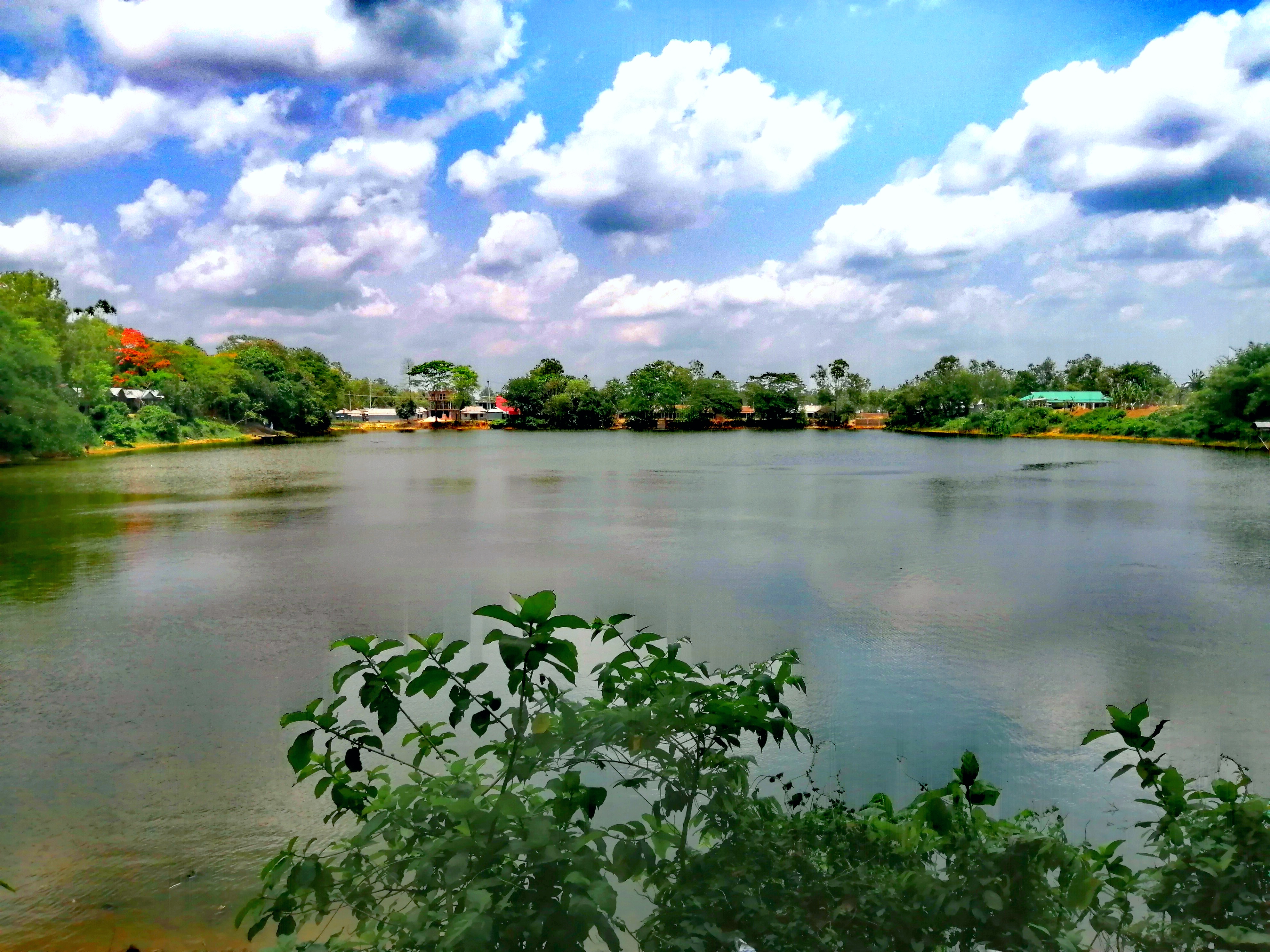 This plase is called sagardighi. It is in ghatail thana under Tangail district in Bangladesh.